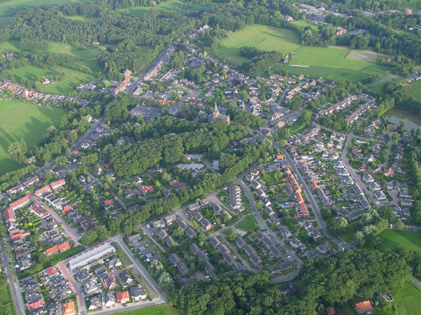 Aerial picture of Lonneker, Village near Enschede, Netherlands.